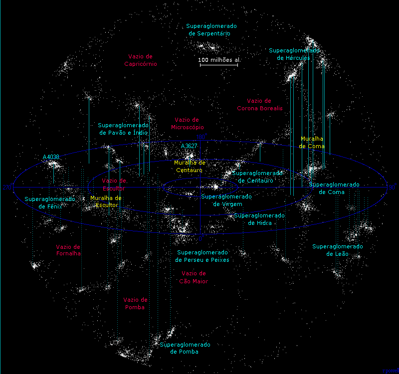 Map of voids and superclusters within 500 million light years from Milky May